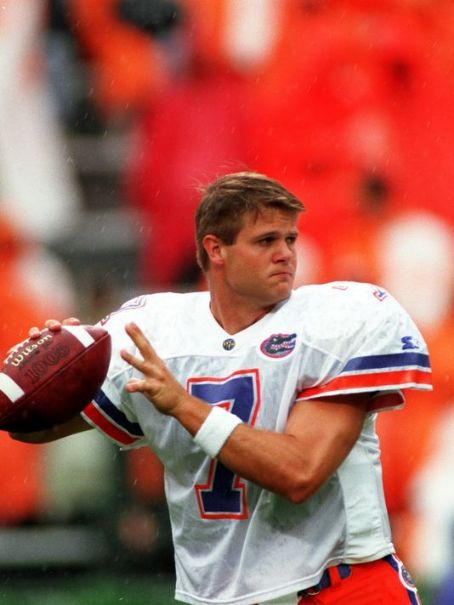 National Champion quarterback and Heisman Trophy Winner Danny Wuerffel at the University of Florida. The team went on to beat FSU at the 1996 Natl Championship.